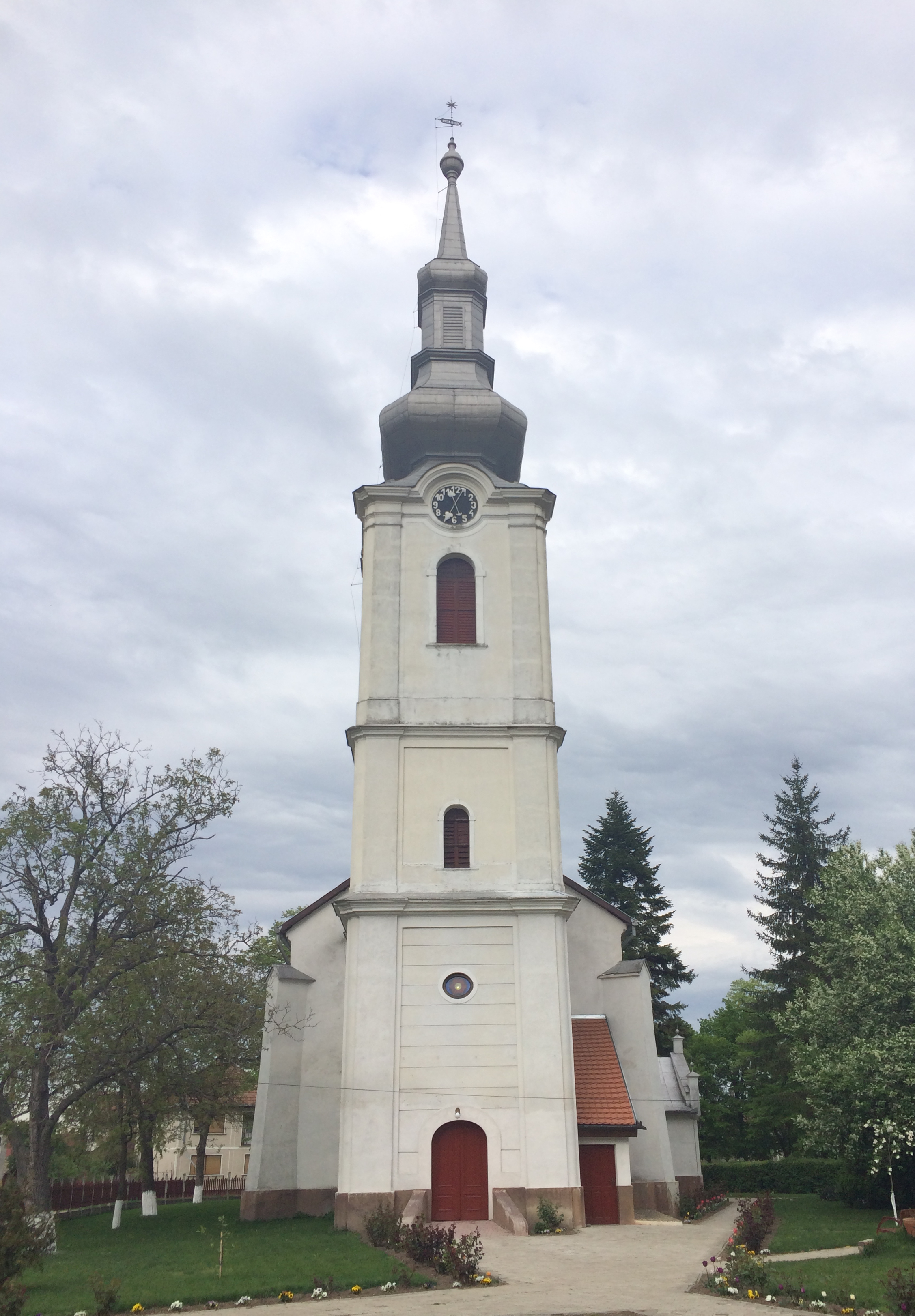 Reformed Church, Sacueni, Bihor county, RomaniaRomână: Biserica Reformată, Săcueni, jud. Bihor